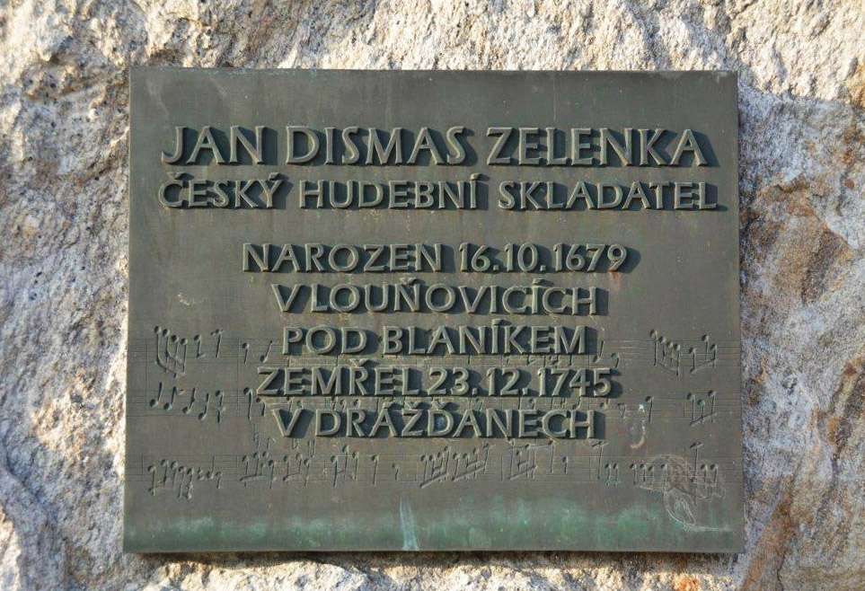 Jan Dismas Zelenka memorial in Louňovice pod Blaníkem, Czechia - memorial plaque